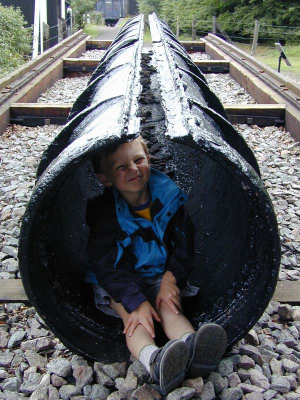 "Brunels Atmospheric Caper" - 22 inch diameter pipes at Didcot Railway Museum. 4 year old child for scale... User:William M. Connolley